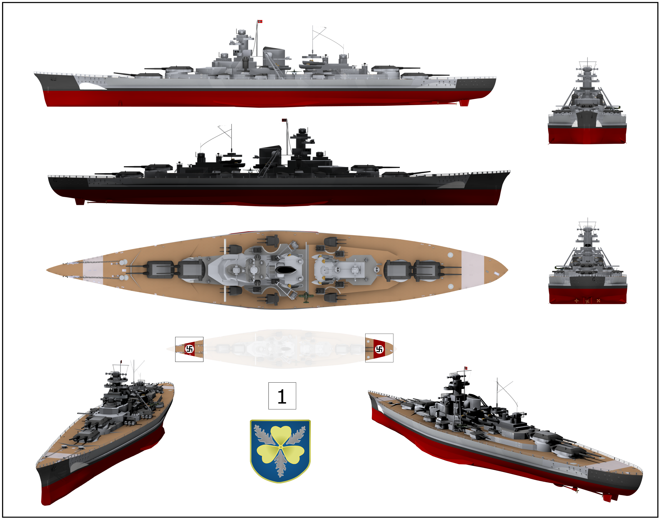 Illustration of battleship Bismarck as she left Norway in May 1941:"Bismarck kept the dark gray colour at the ends of the hull including the white bow water and stern water as indicated on your sketch, leaving Norway May 21...Bismarcks and our black and white stripes ended at the waterline." Paul Schmalenbach, gunnery officer Prinz Eugen from John Asmussen's site: file and website1)Pre-Rheinübung aerial identification markings. Note: I included the swastikas because most people I talk to expect to see them, and indeed some recreations of Bismarck during her one and only sortie erroneously include them. The reason they were ever there is both because the Nazis loved em and they explained very clearly whose side the ship was on for German pilots while near home. Of course the easily visible Nazi icon cut both ways thus making it easier to spot the ship at sea for the British, which is why they were painted over for deployment.